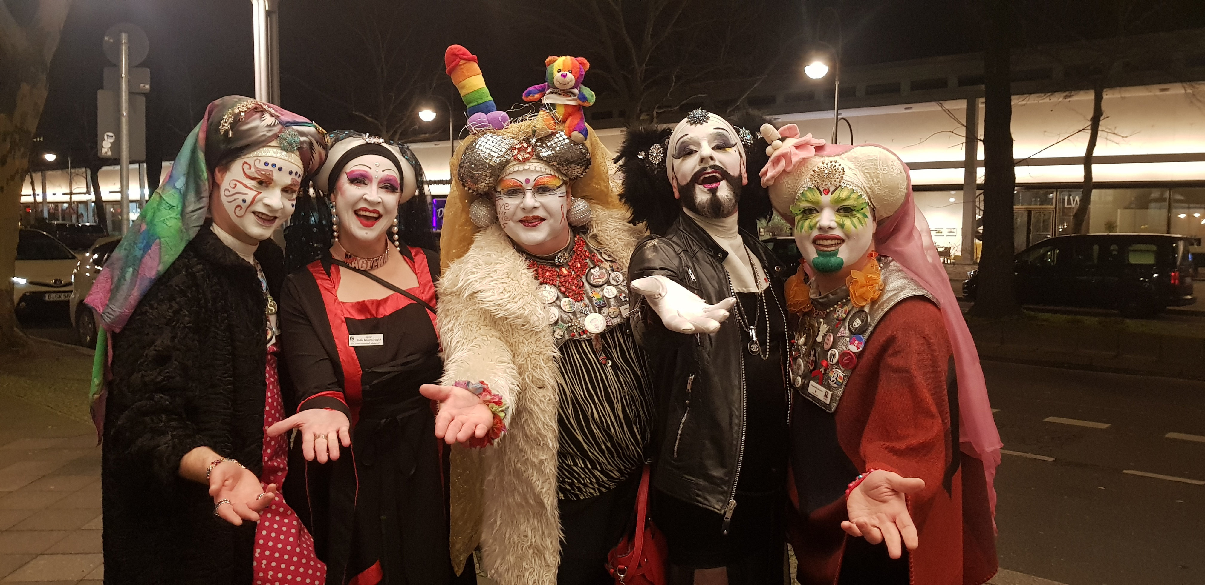 Sisters from San Francisco and Berlin during a manifestation in Berlin. From left to right: Sister Pia OSPI, Sister Stella Believin Magick SPI, Sister Rosa OSPI, Sister Rose Mary Chicken SPI, Sister Daphne